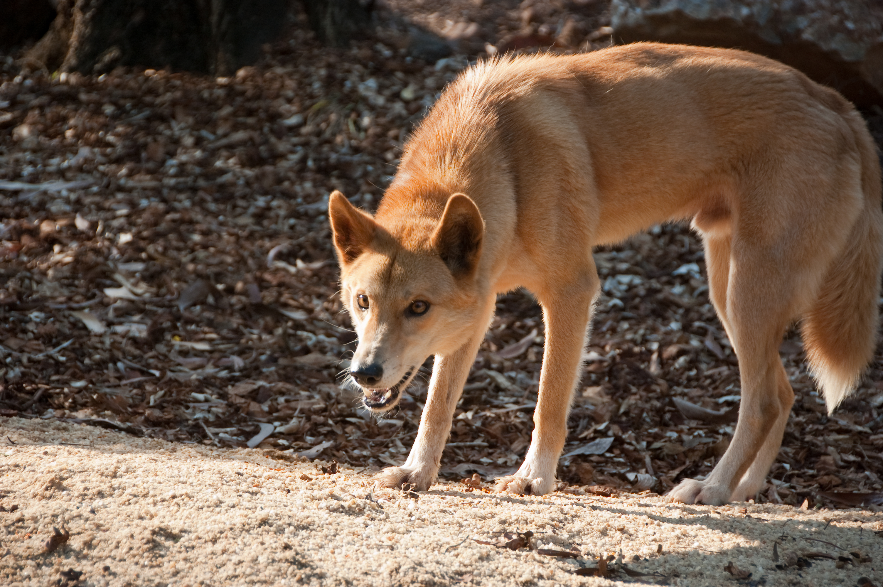 picture taken in Berry Springs, Northern Territory